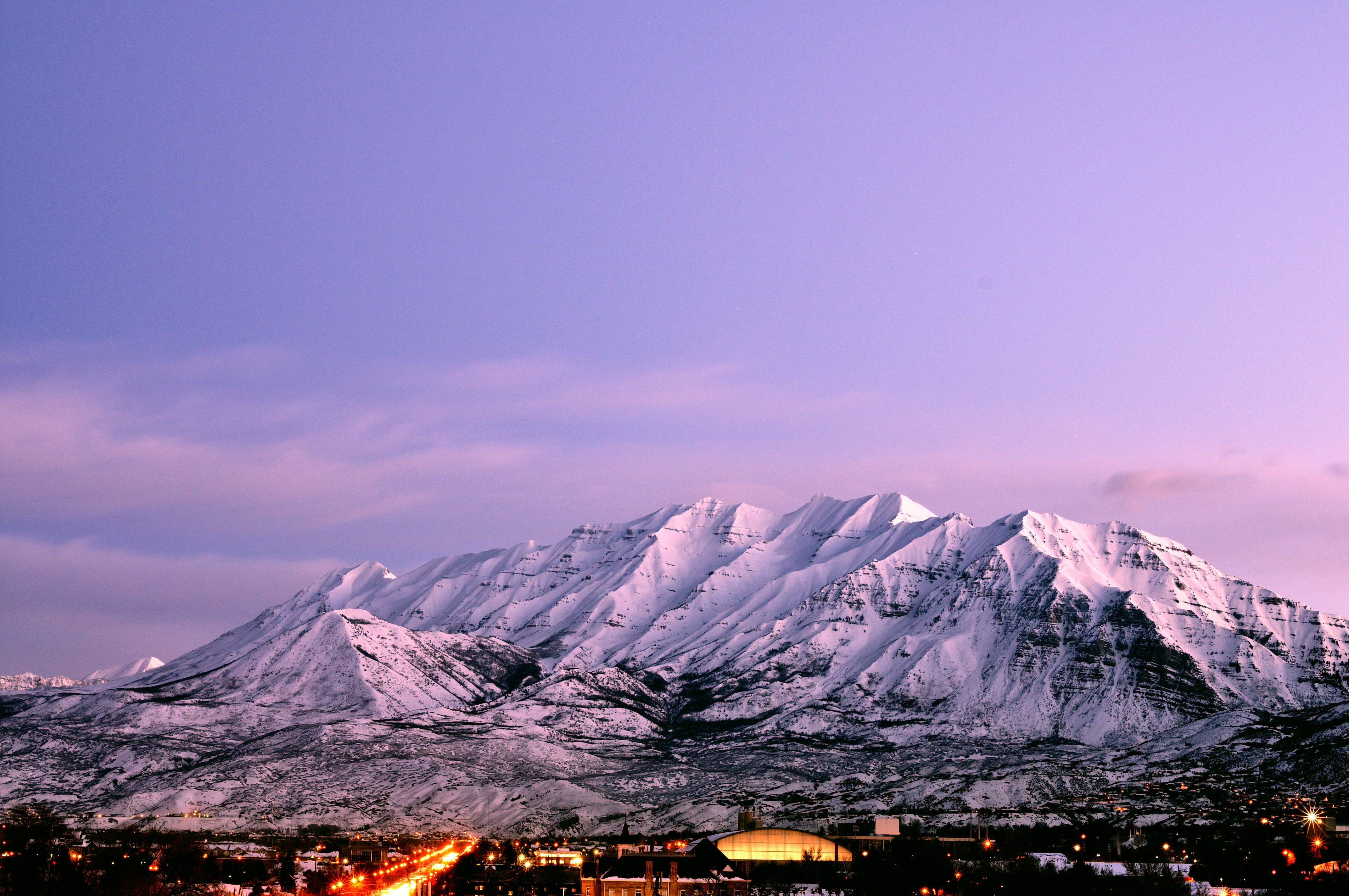 View of Mount Timpanogos from Provo, Utah